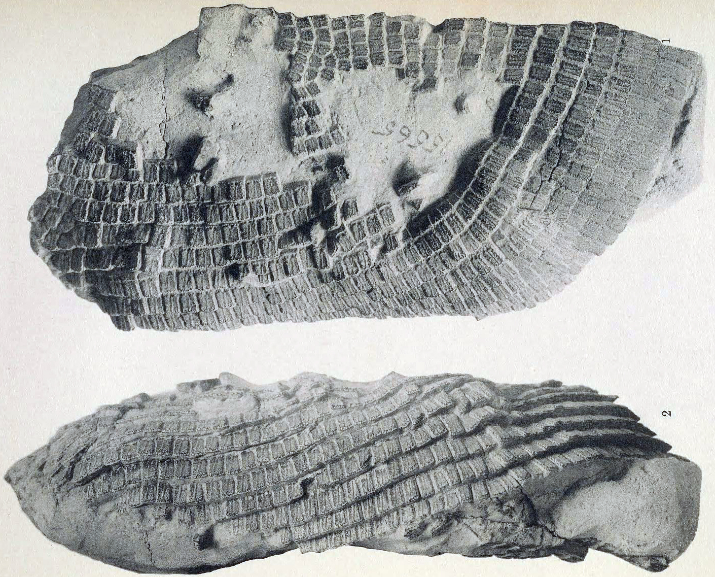 Stegotherium shell. Reports of the Princeton University Expeditions to Patagonia, 1896-1899. Princeton,The University,1901-32 [v. 1, 1903].